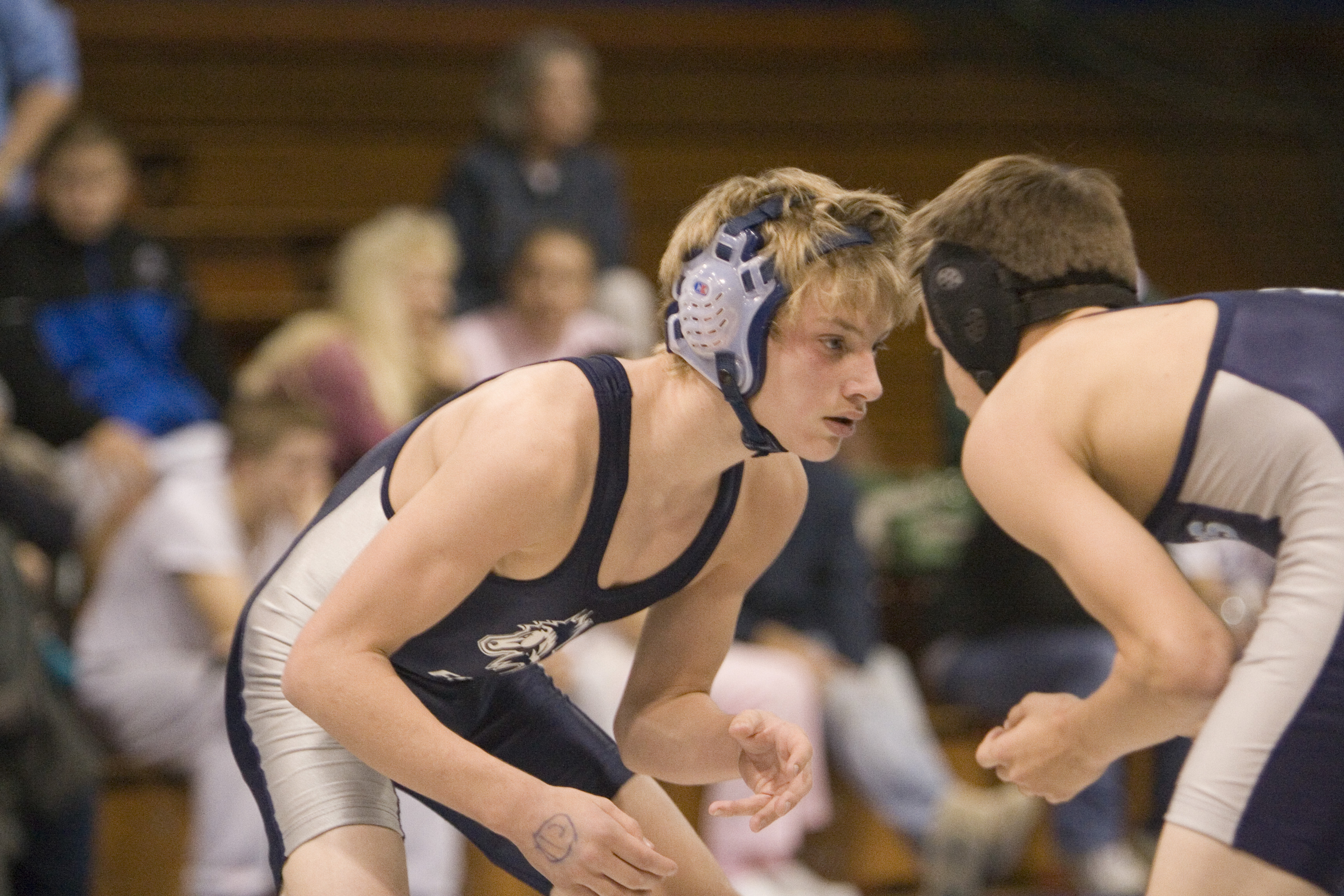 Two high school students wrestling (collegiate, scholastic, or folkstyle) in the United States. Originally uploaded by Wikiman86 on the English Wikipedia project at